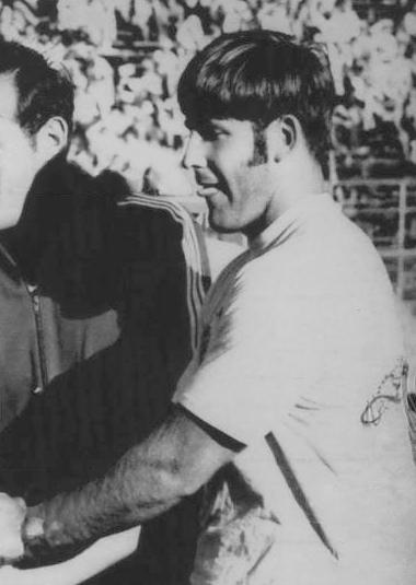 1972 Press Photo Top Three Finishers in U.S. Olympic Trials Discuss Competition